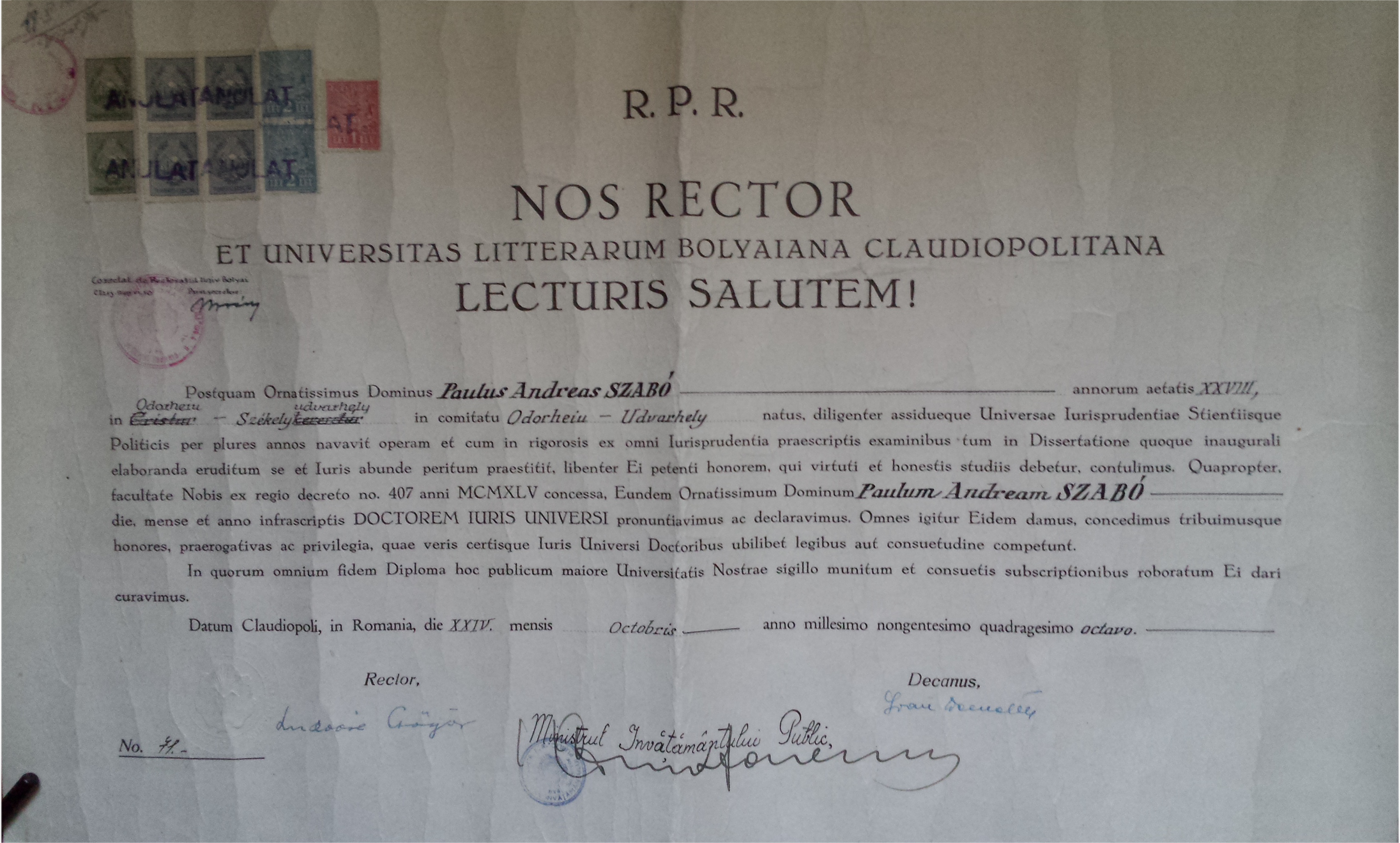 PhD diplom in Latin issued by Bolyai University in 1948